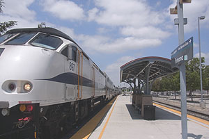 Metrolink train at Pomona (North) station in May 2013